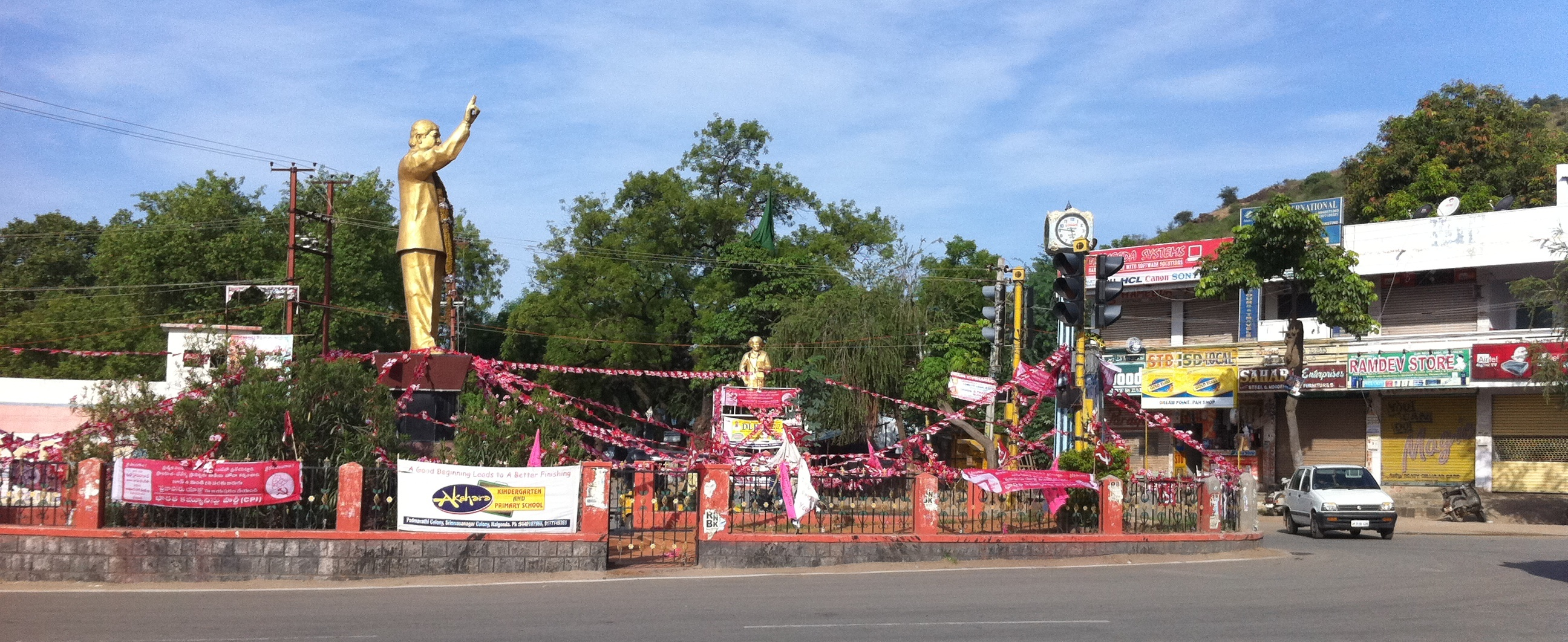 lathisaf gutta Nalgonda